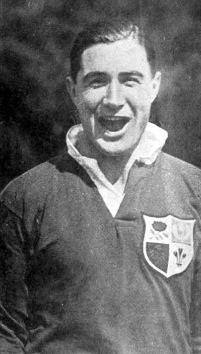 Rugby union player Edward Taylor during his days with the British and Irish Lions.